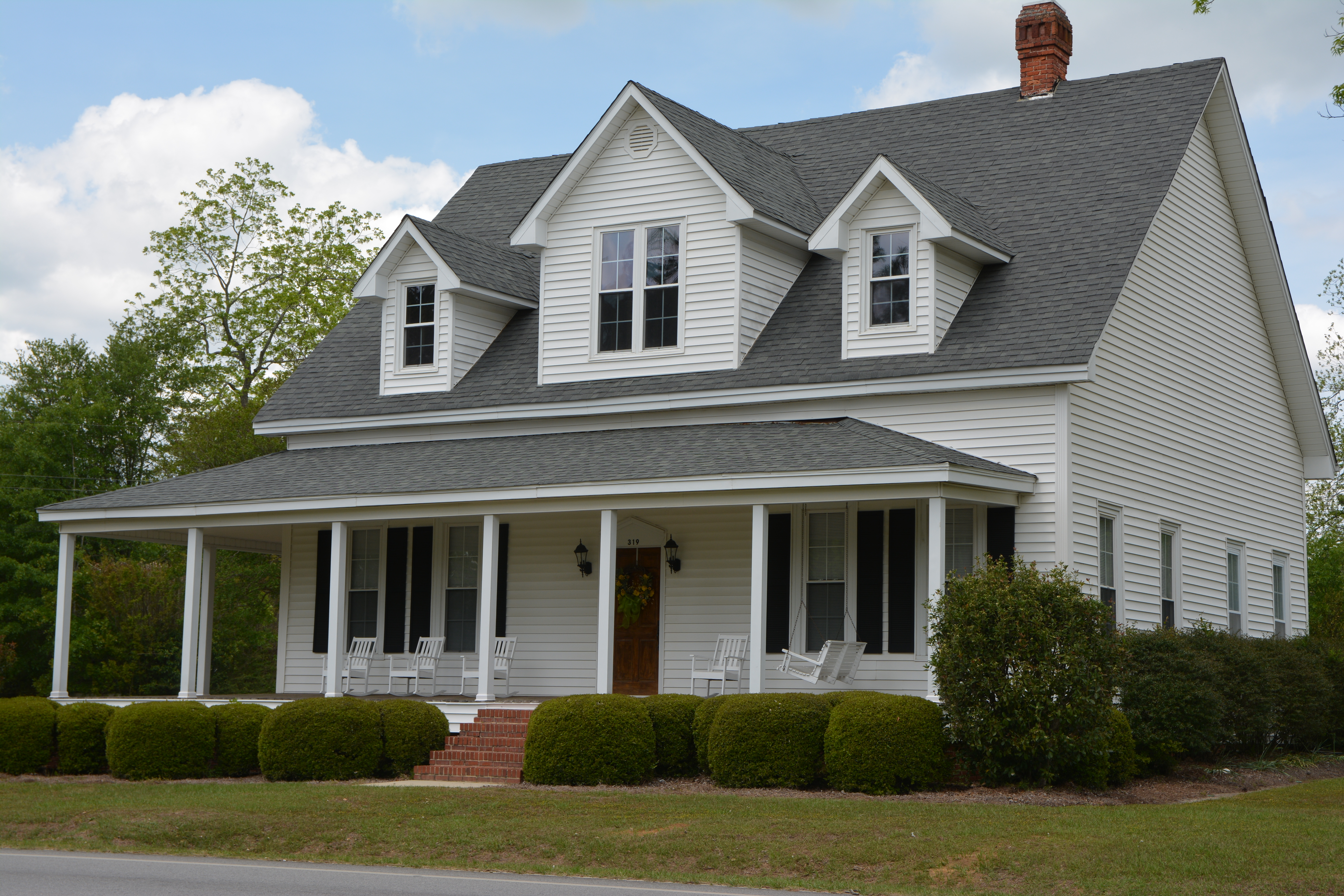 Twin City Historic District, Twin City, Georgia, U.S.